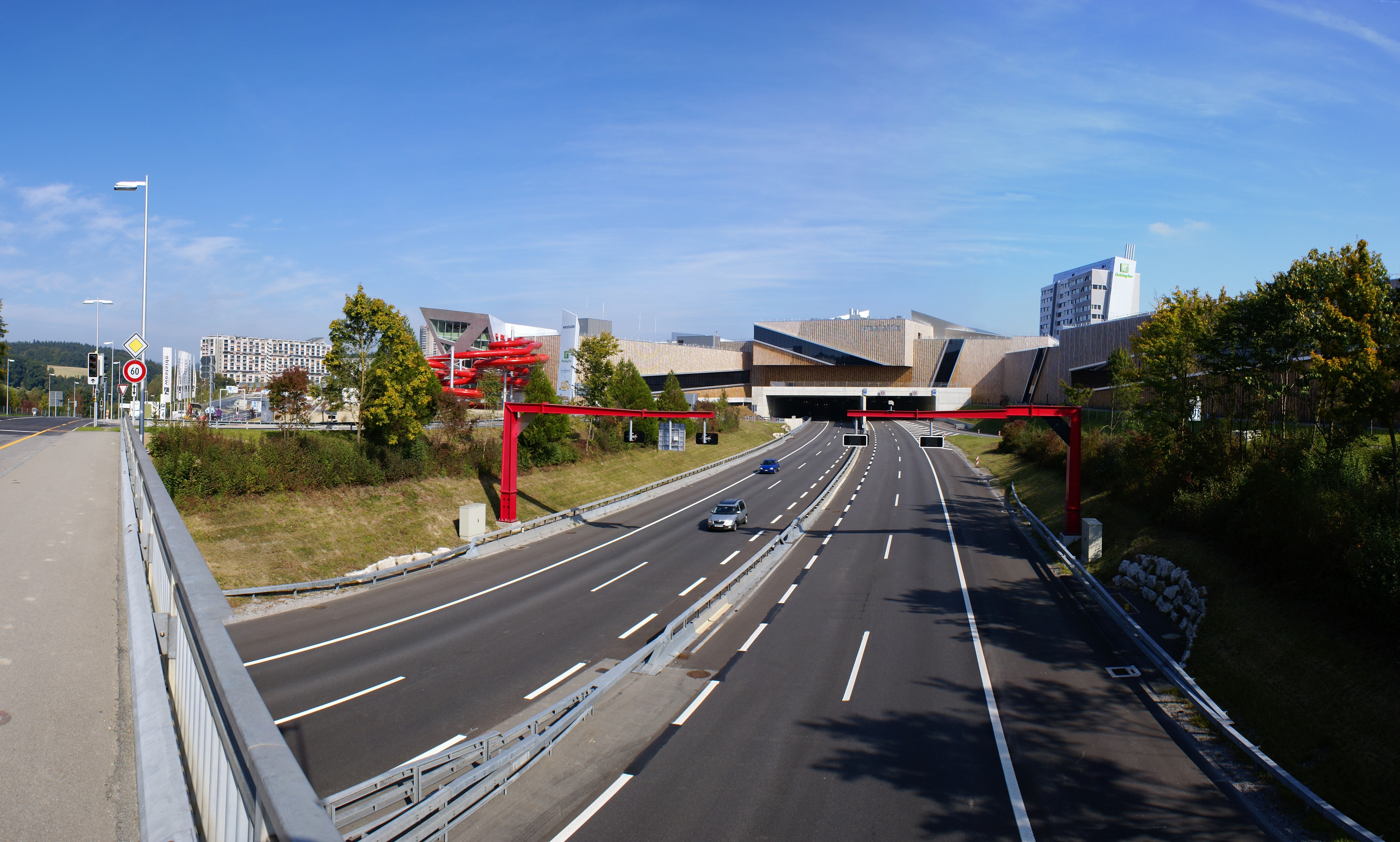 Westside Shopping and Leisure Complex by Daniel Libeskind and A1 highway in the Brünnen neighbourhood, Berne, Switzerland.